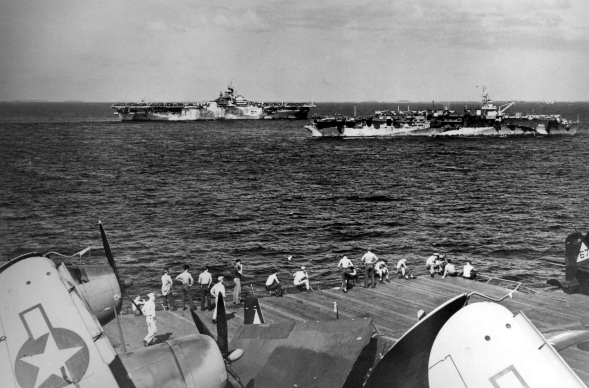 The U.S. Navy aircraft carriers USS Hornet (CV-12) (left) and USS Independence (CVL-22) as seen from the flight deck of the carrier USS Wasp (CV-18) in January 1945. Hornet wears camouflage measure 33 design 3A, Independence measure 33 design 8A. Task Force 38 was just returning to Ulithi after attacking Japanese bases in the South China Sea, on Formosa and on Okinawa since 30 December 1944.